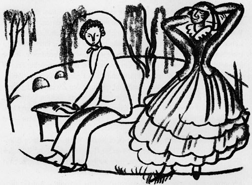 Illustration by novel First Love